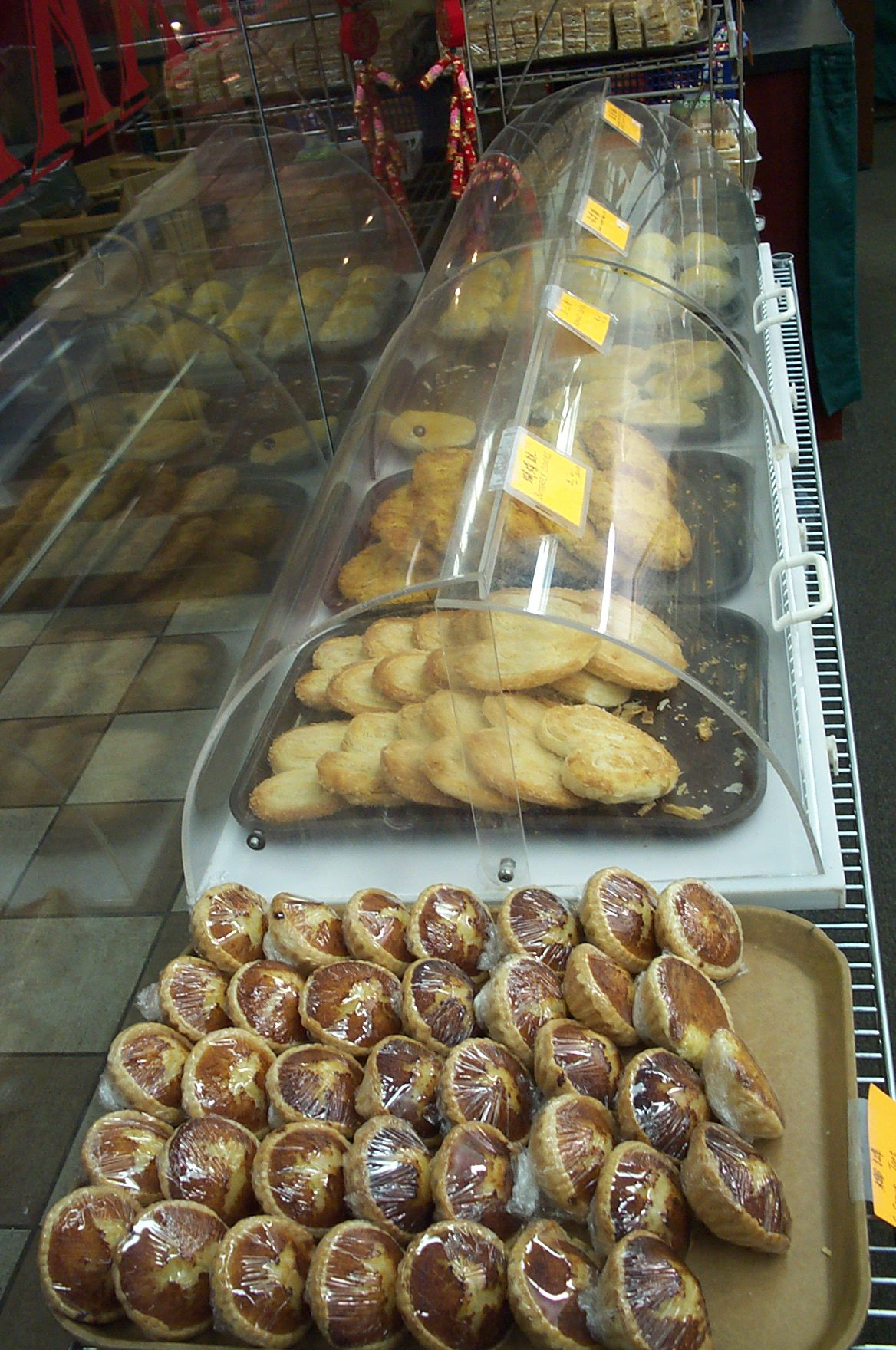 A display case in a Chinese bakery. Photo courtesy of Stu Spivack